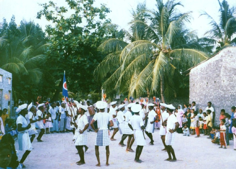 Gaa odi lava. Popular celebration in Holhudu Island. Dance performed by men